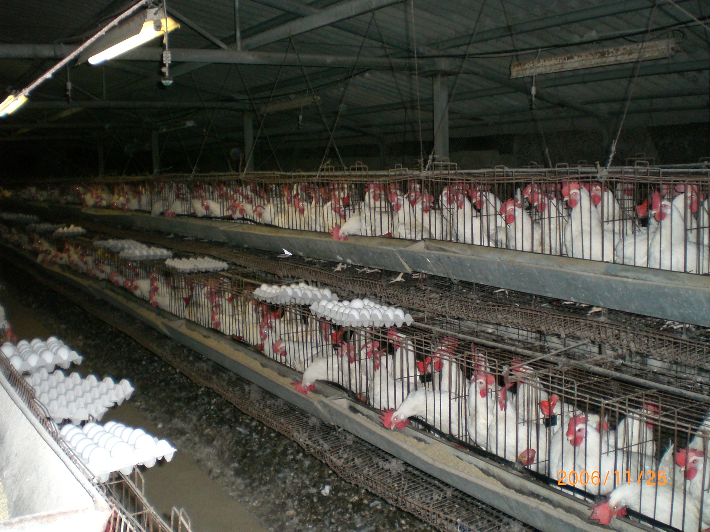 Chickens in industrial coop